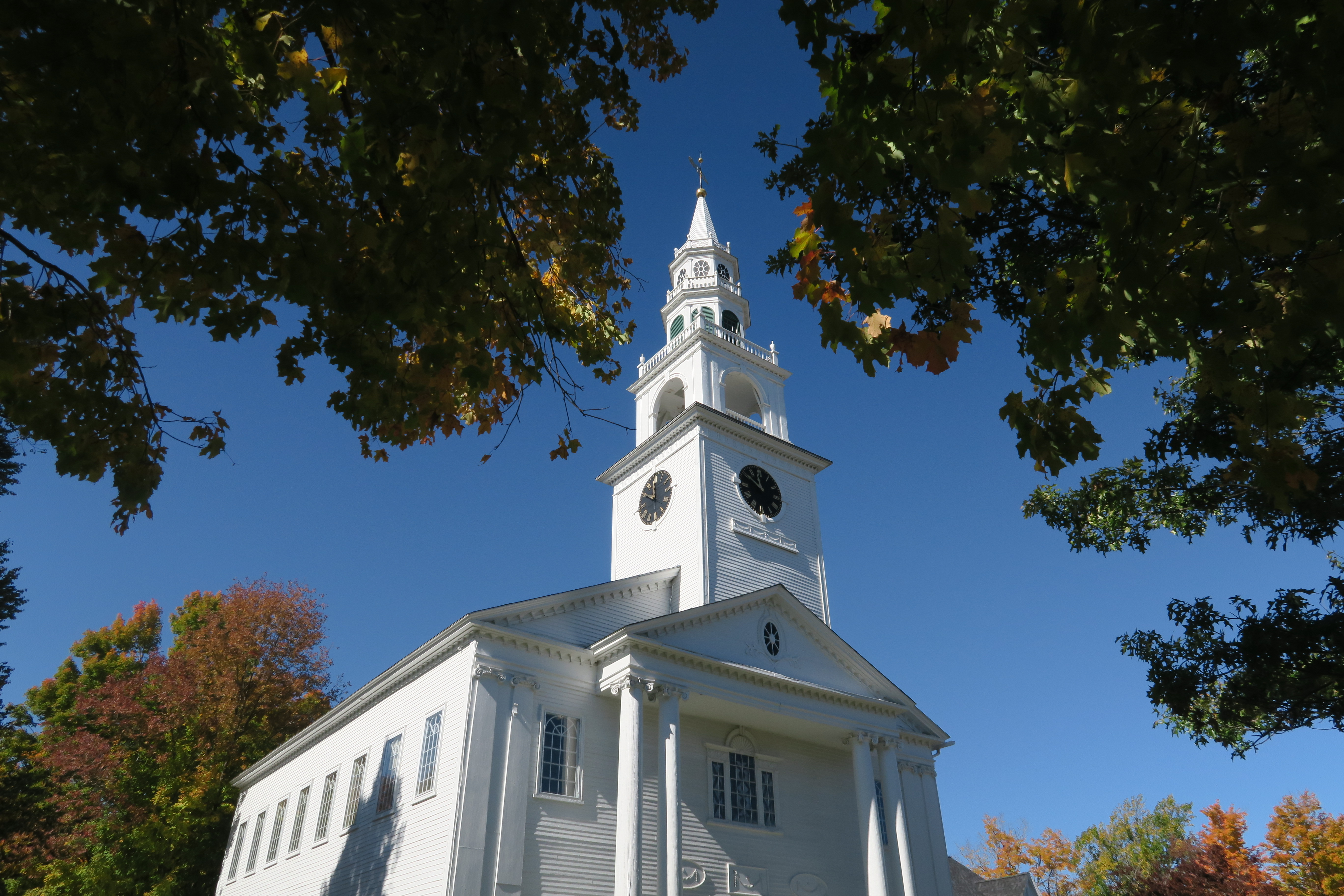 First Church of Templeton Massachusetts